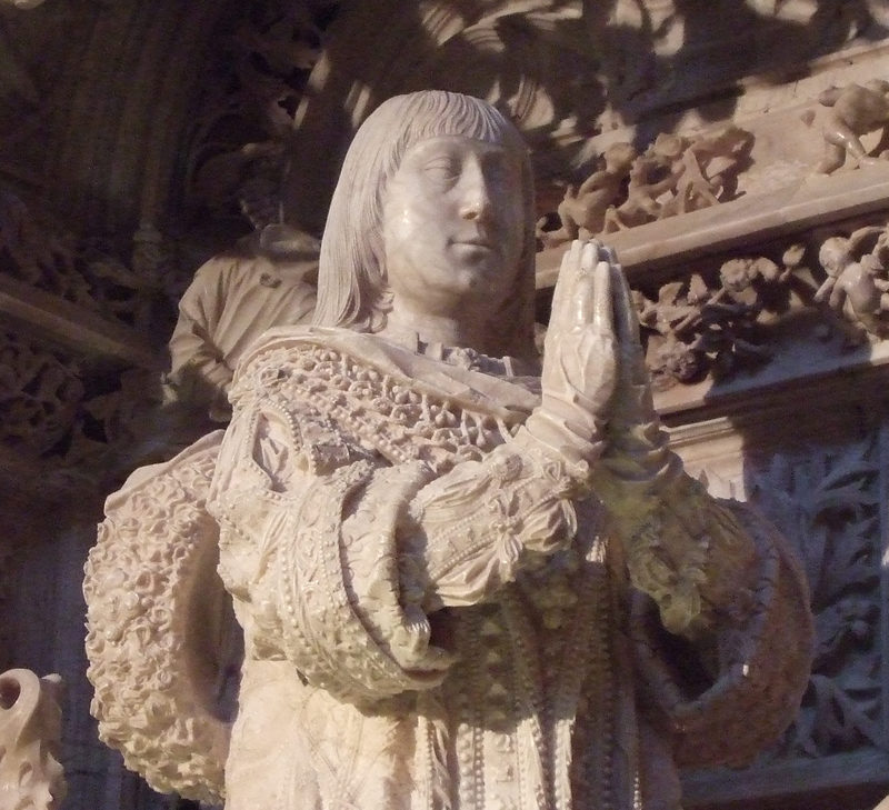 Tomb of Alfonso, Prince of Asturias, in Cartuja de Miraflores (Burgos)